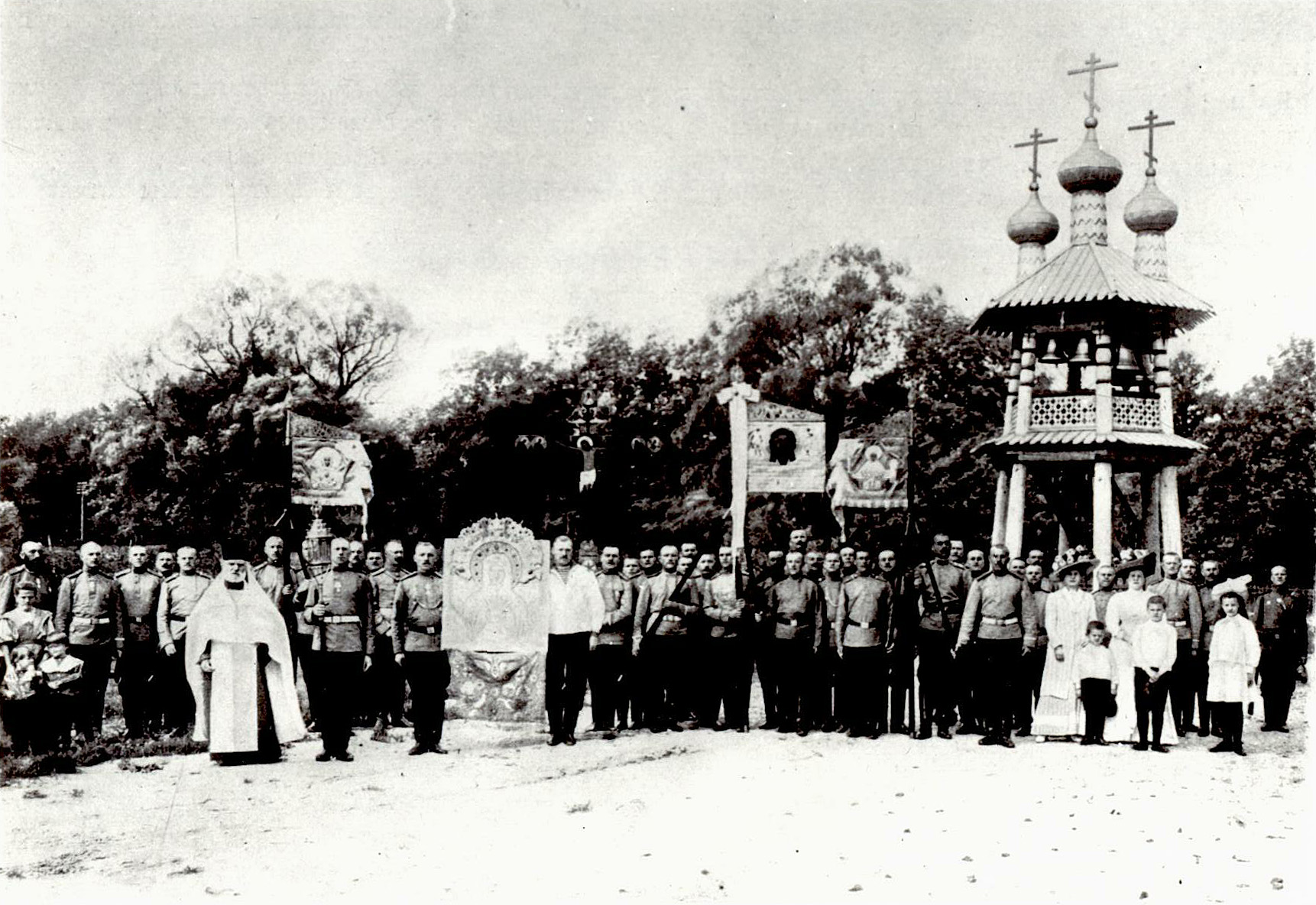 Tsarskoye Selo (Russia)